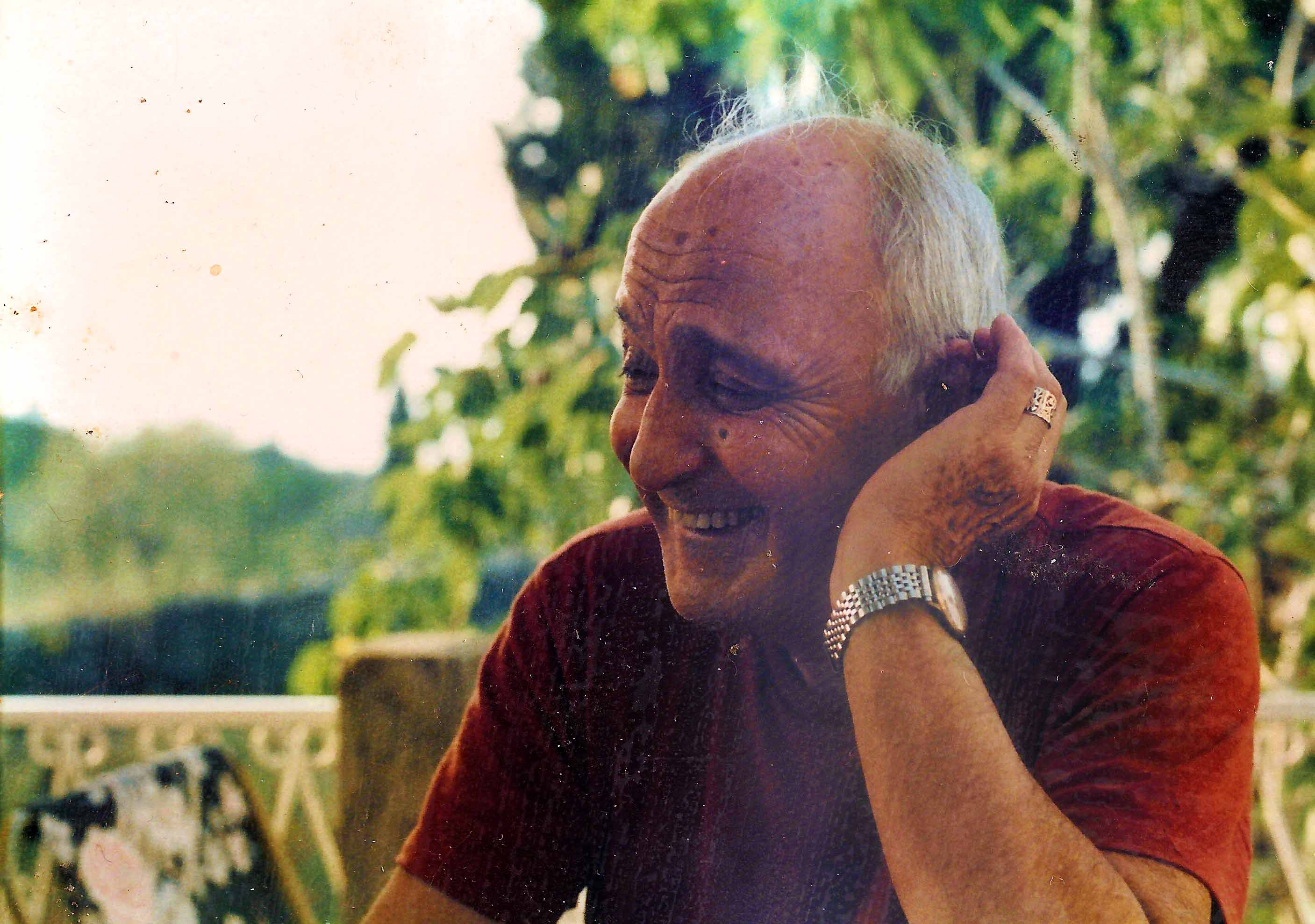 A photo of writer and author Svetoyar Brkic at his hose in Zlarin, Croatia